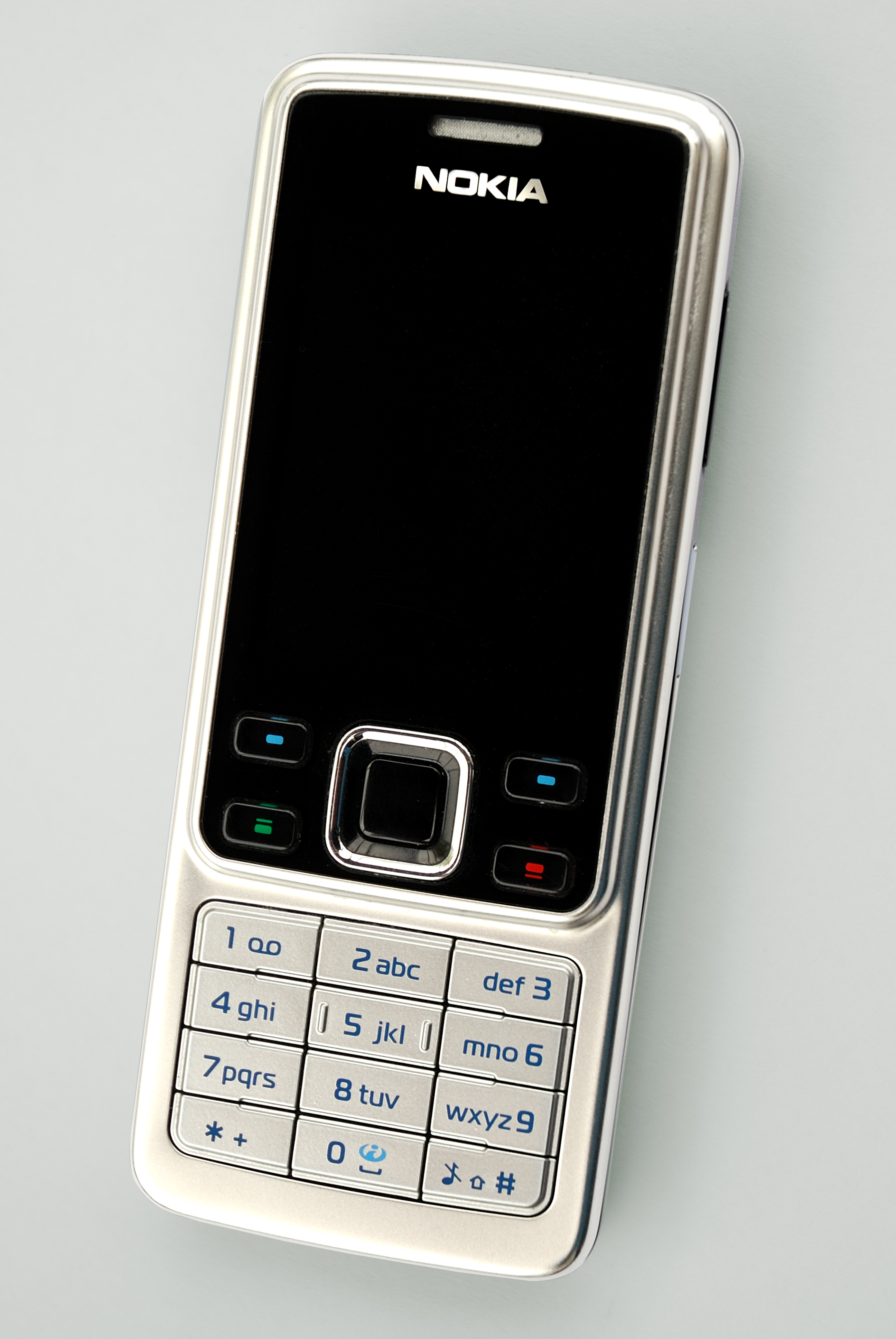 A Nokia 6300 mobile phone